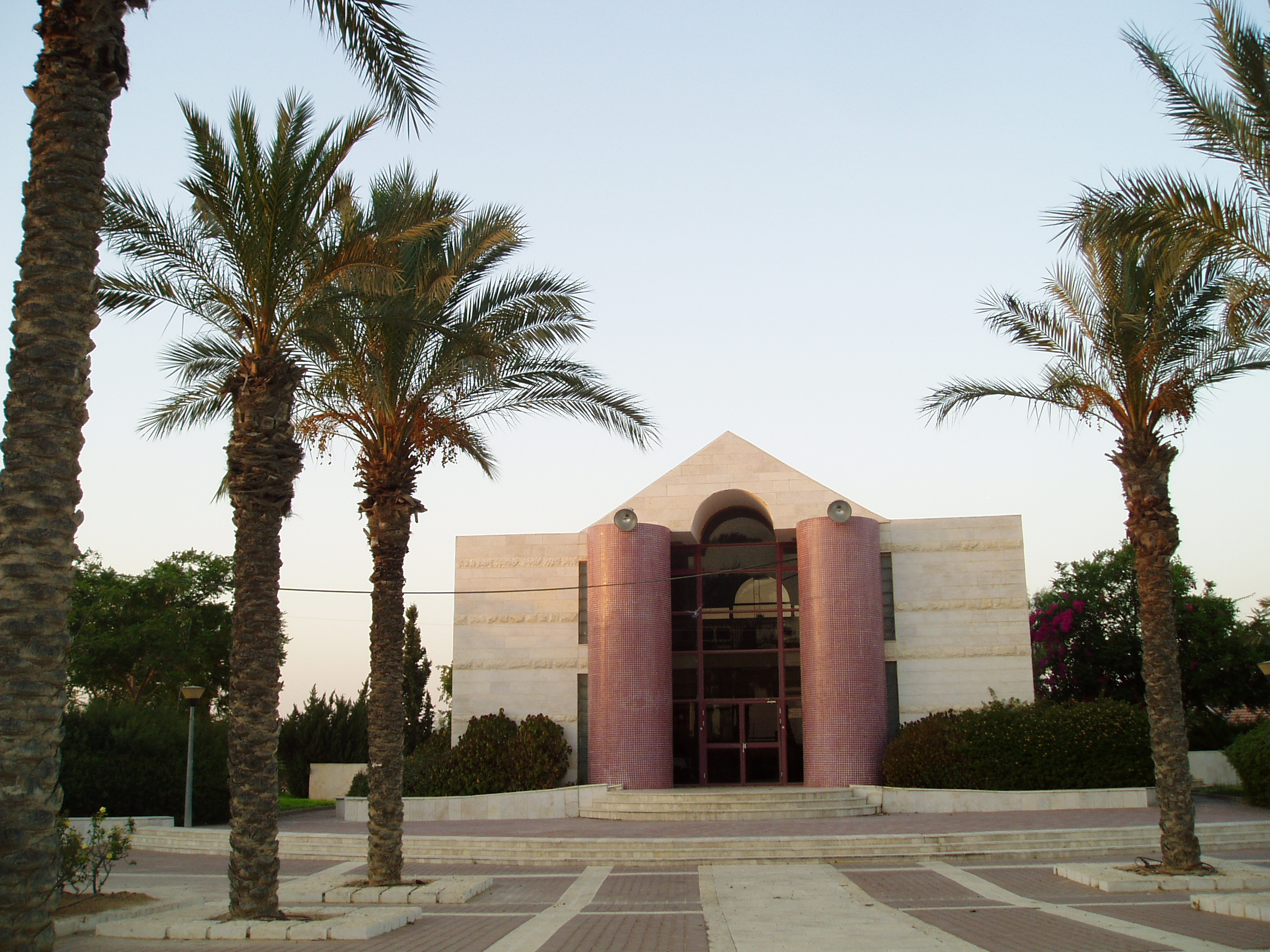 Lehavim, Israel. Synagogue at the centre of the older Lehavim district.